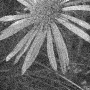 A noisy image of a flower, used for demonstrating image processing